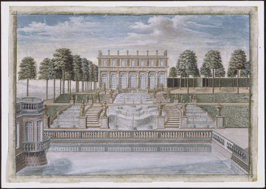 La cascade des Bosquets dans le parc de Lunéville